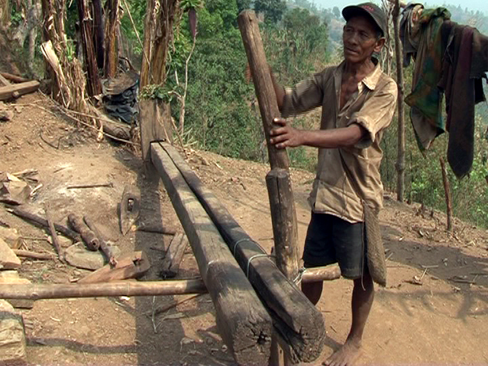 Chepang Man with a divice used to extract oil from Diploknema butyracea seeds.